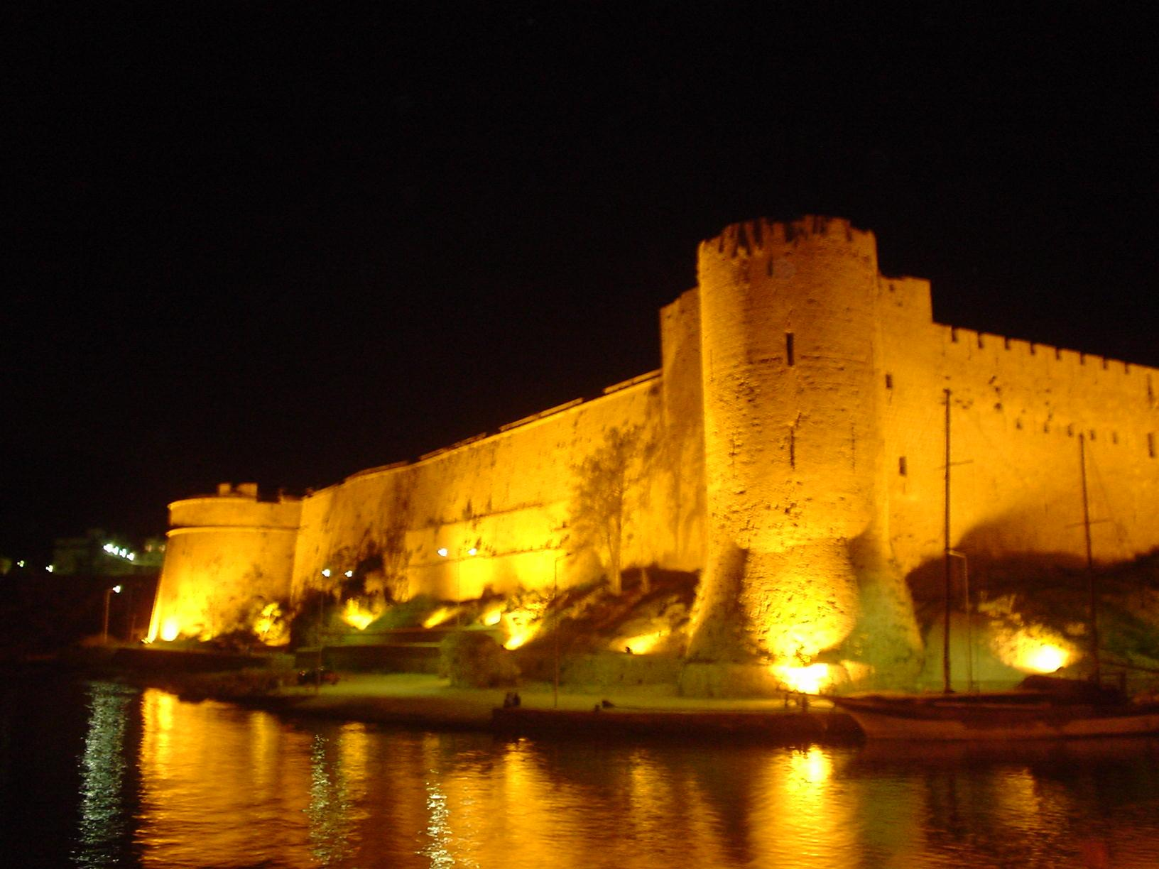 Kyrenia Castle at Night, North Cyprus. Author: Atak Kara